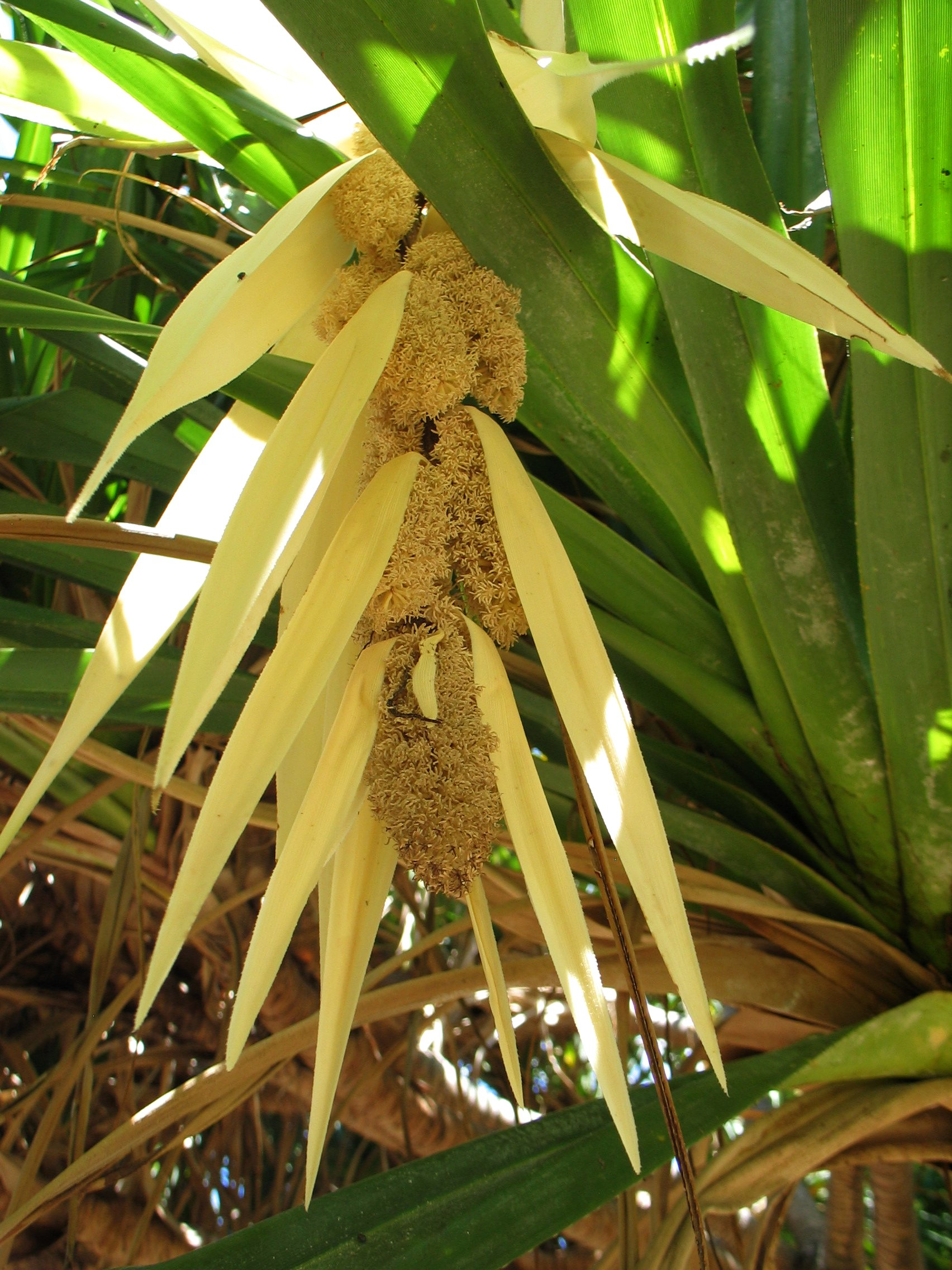 Hala or Screwpine Pandanaceae Indigenous to the Hawaiian Islands The fragrant bracts of the male hala flower (hīnano). Male flowers, called hīnano in Hawaiian, are surrounded by very fragrant bracts. The soft part of hīnano were chewed by early Hawaiian mothers and given to infants and young children as a laxative. Adults also used it as a laxative. NPH00010